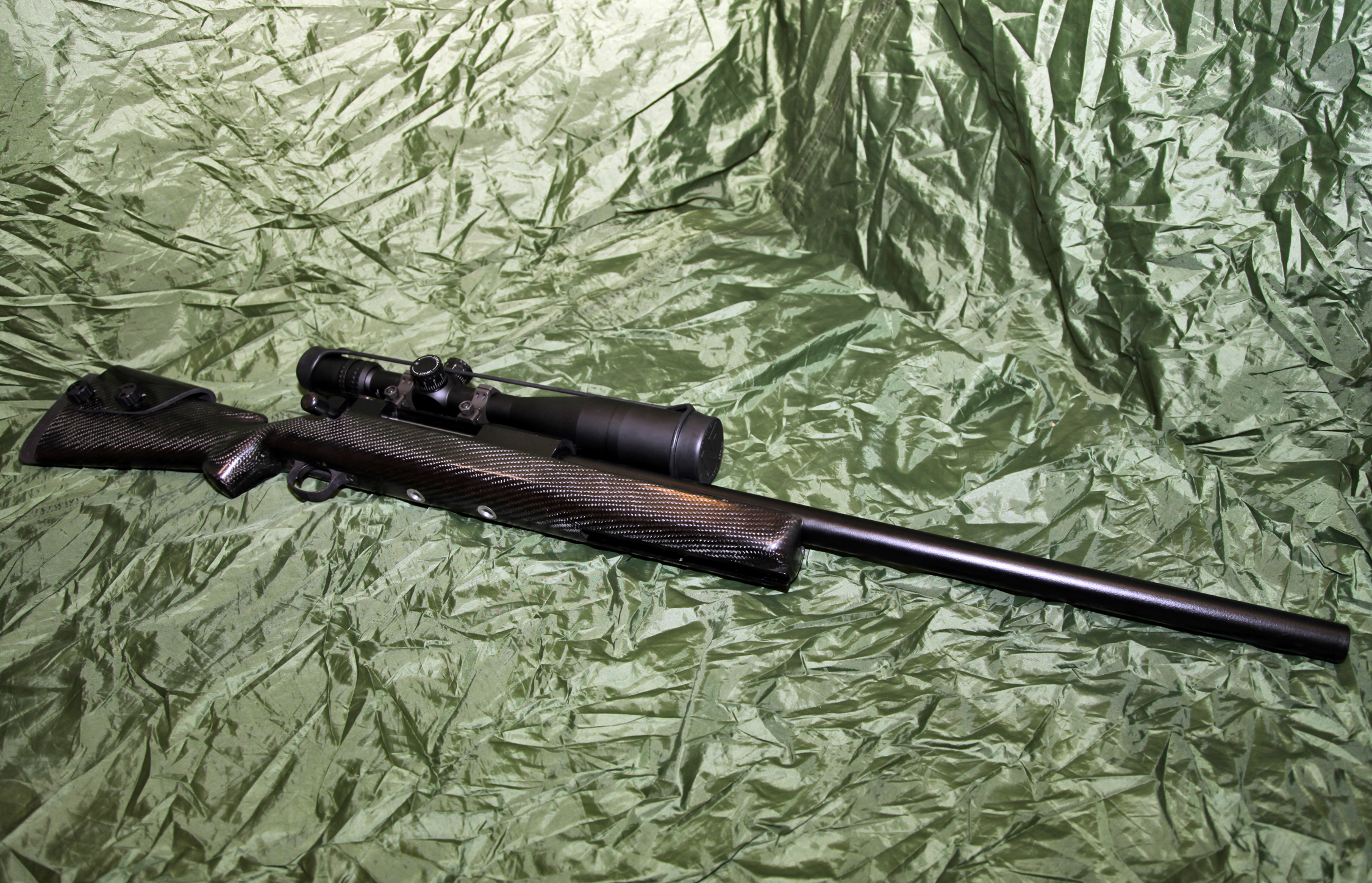 Lobaev rifle OVL-3 with NightForce 5.5-22x50 NXS scope